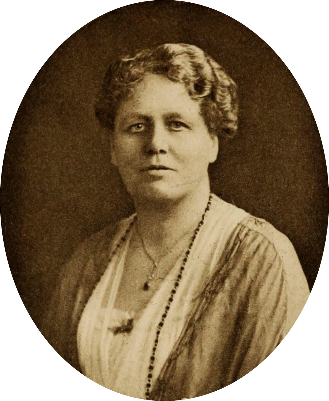 Katherine Maria Routledge, probably 1919